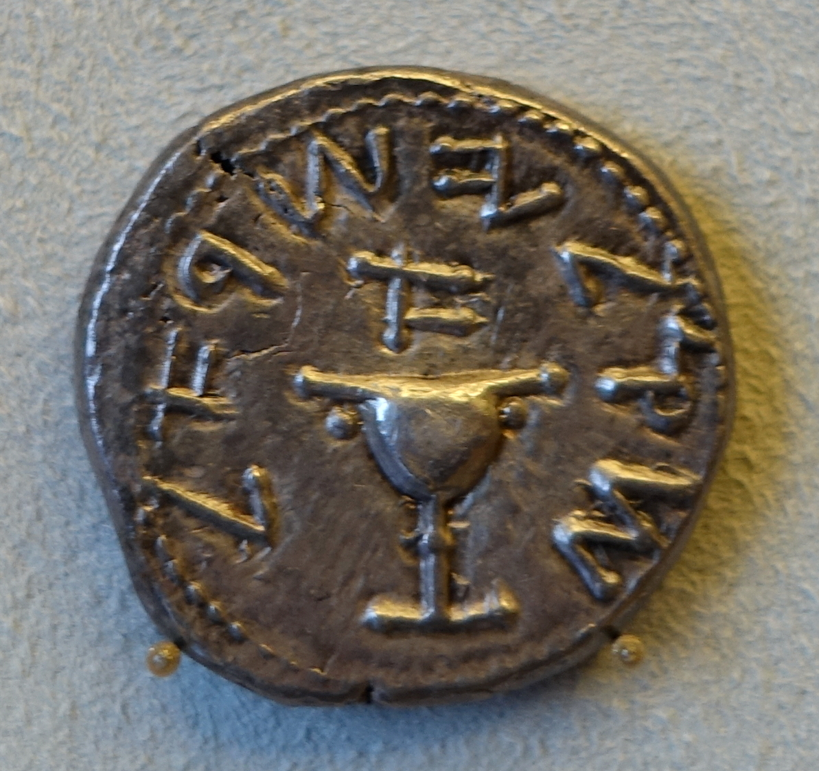 Exhibit in the Bode-Museum, Berlin, Germany. This work is in the public domain because the artist died more than 100 years ago.